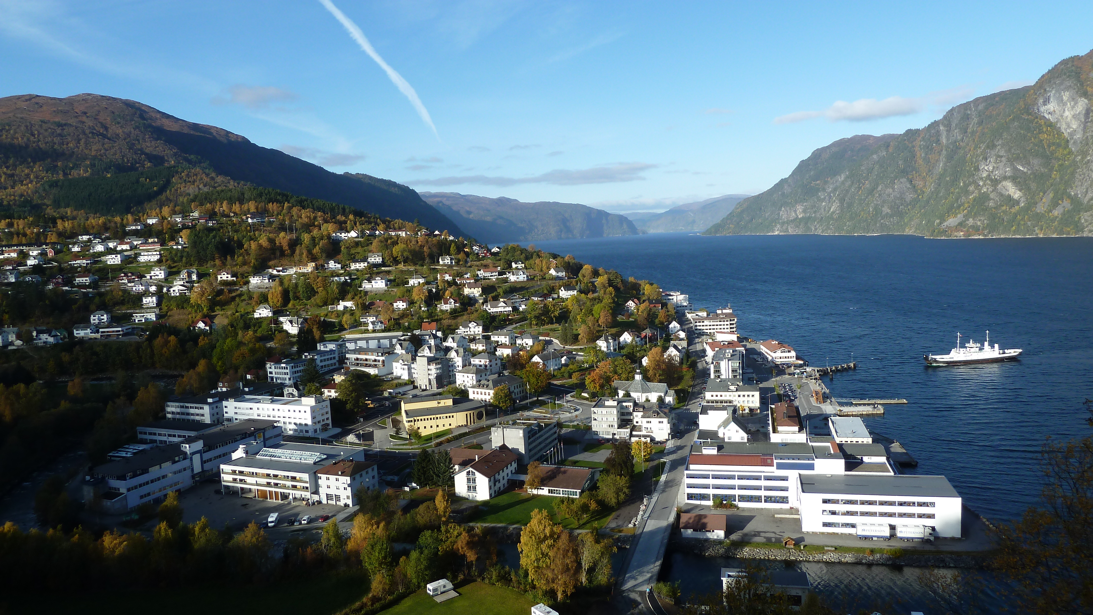 Picture over Stranda.